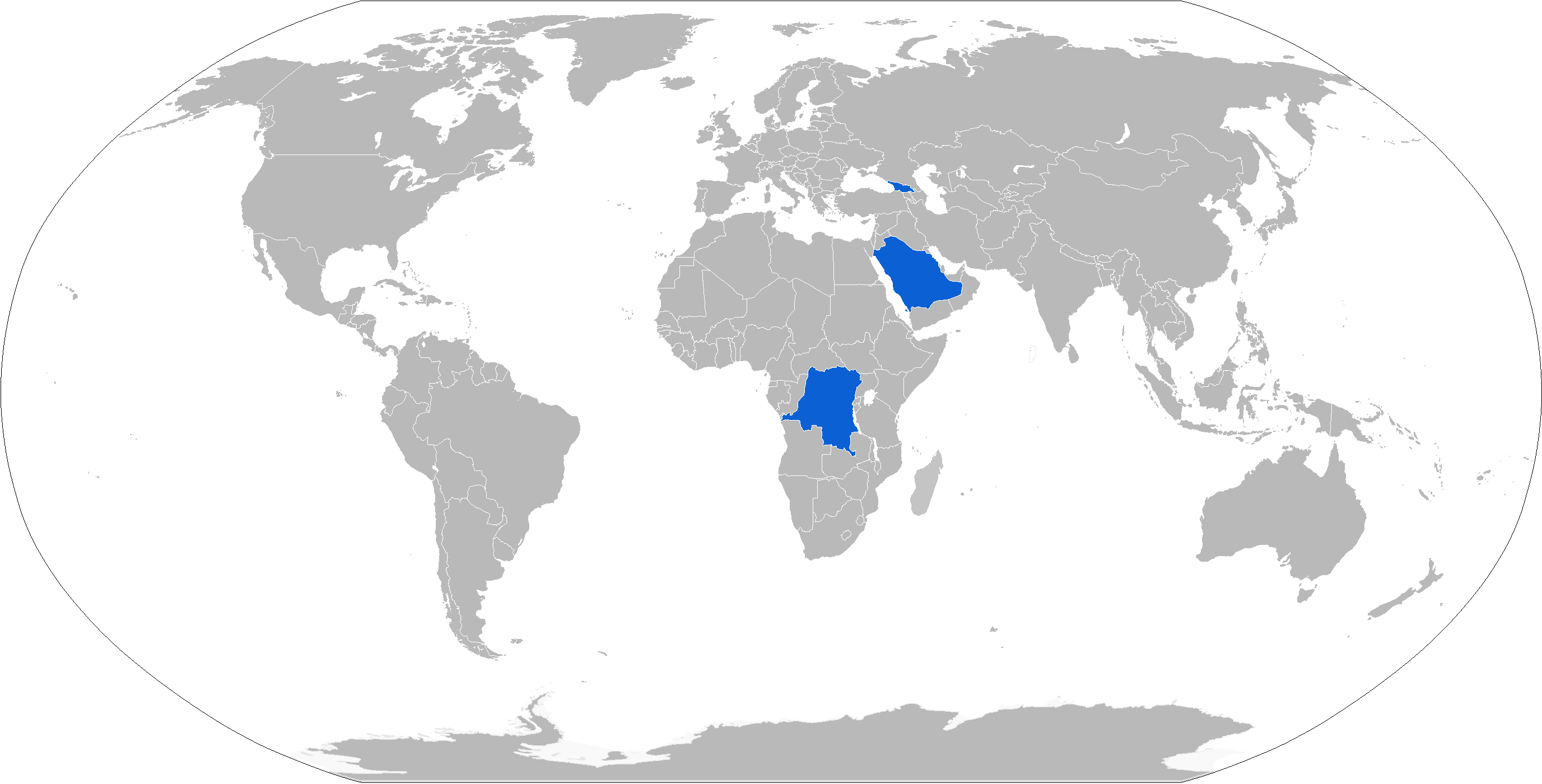 Map of Didgori-2 operators in blue